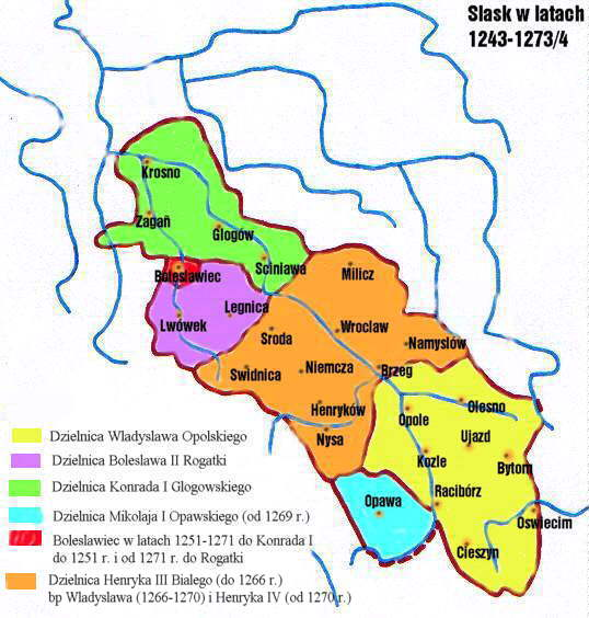 Political map of Silesia 1249–1273/4